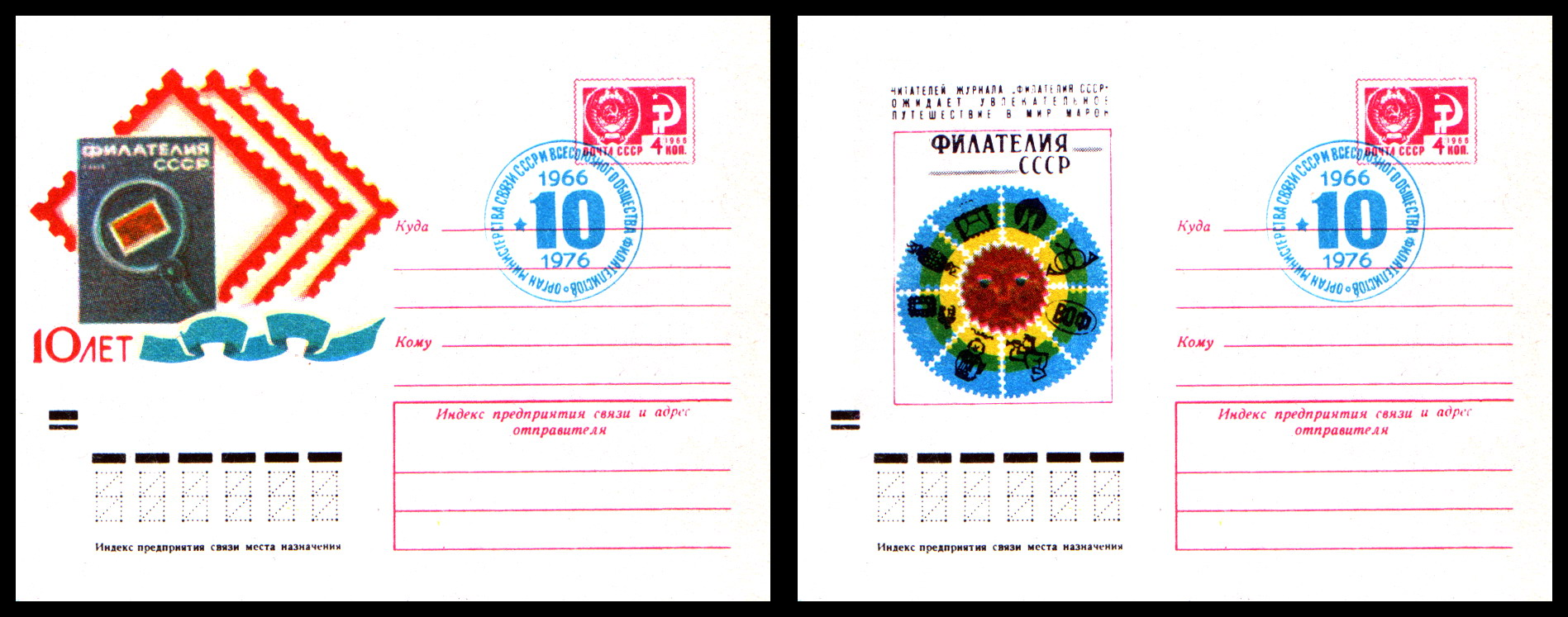 Two USSR stamped illustrated covers, 10th anniversary of Filatelia SSSR Magazine, 1976.